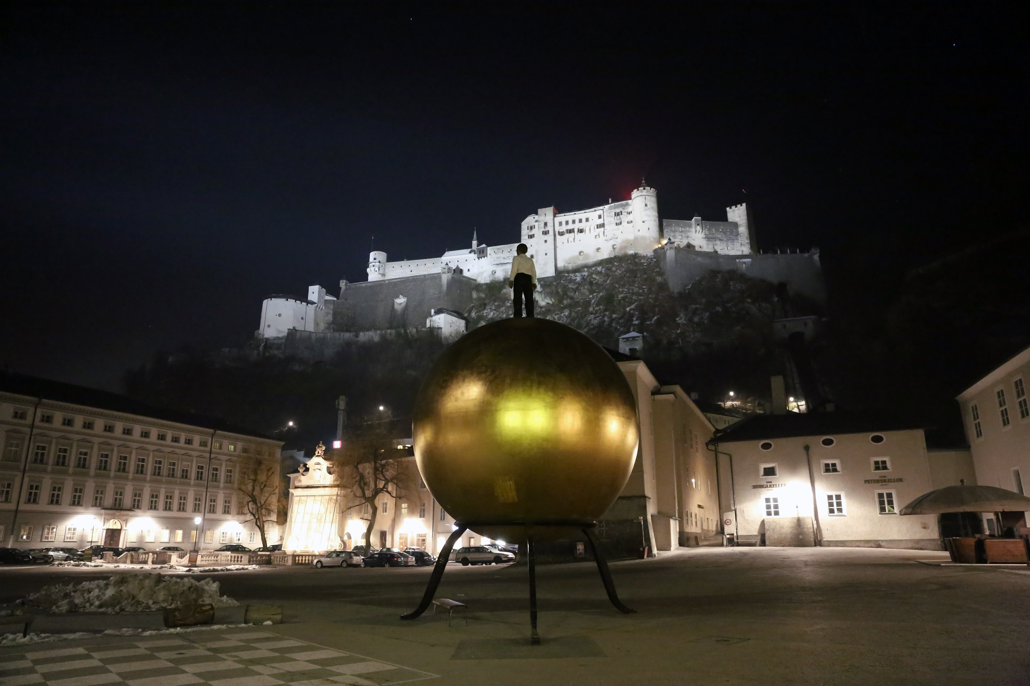 Sculpture "Sphaera" by Stephan Balkenhol and Hohensalzburg Castle in Salzburg, Austria.